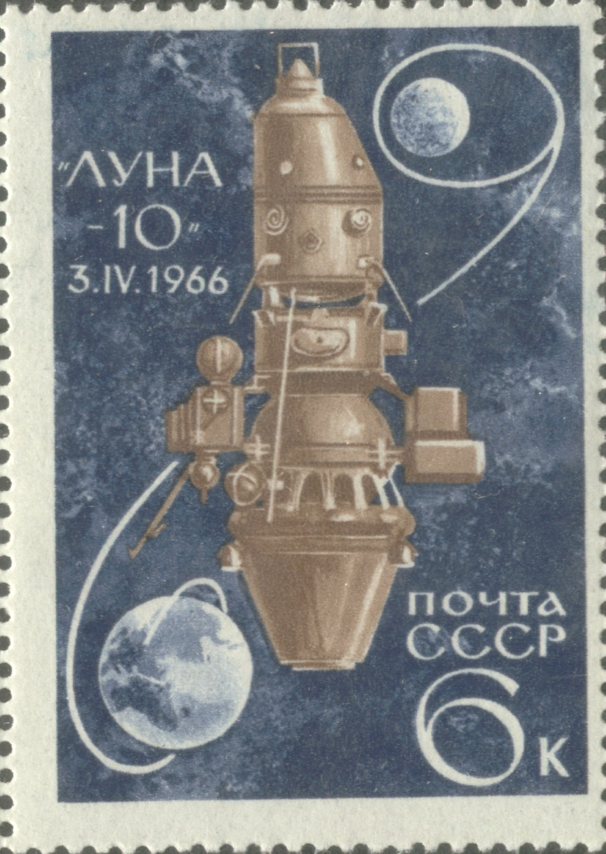 Stamp of the Soviet Union, Luna 10 (a Soviet unmanned space mission of the Luna program), 1966